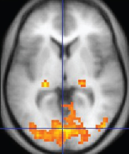 Version 8.25 from the Textbook OpenStax Anatomy and Physiology Published May 18, 2016